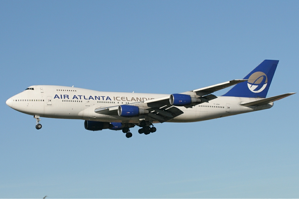 Air Atlanta Icelandic Boeing 747-230BM(SF)